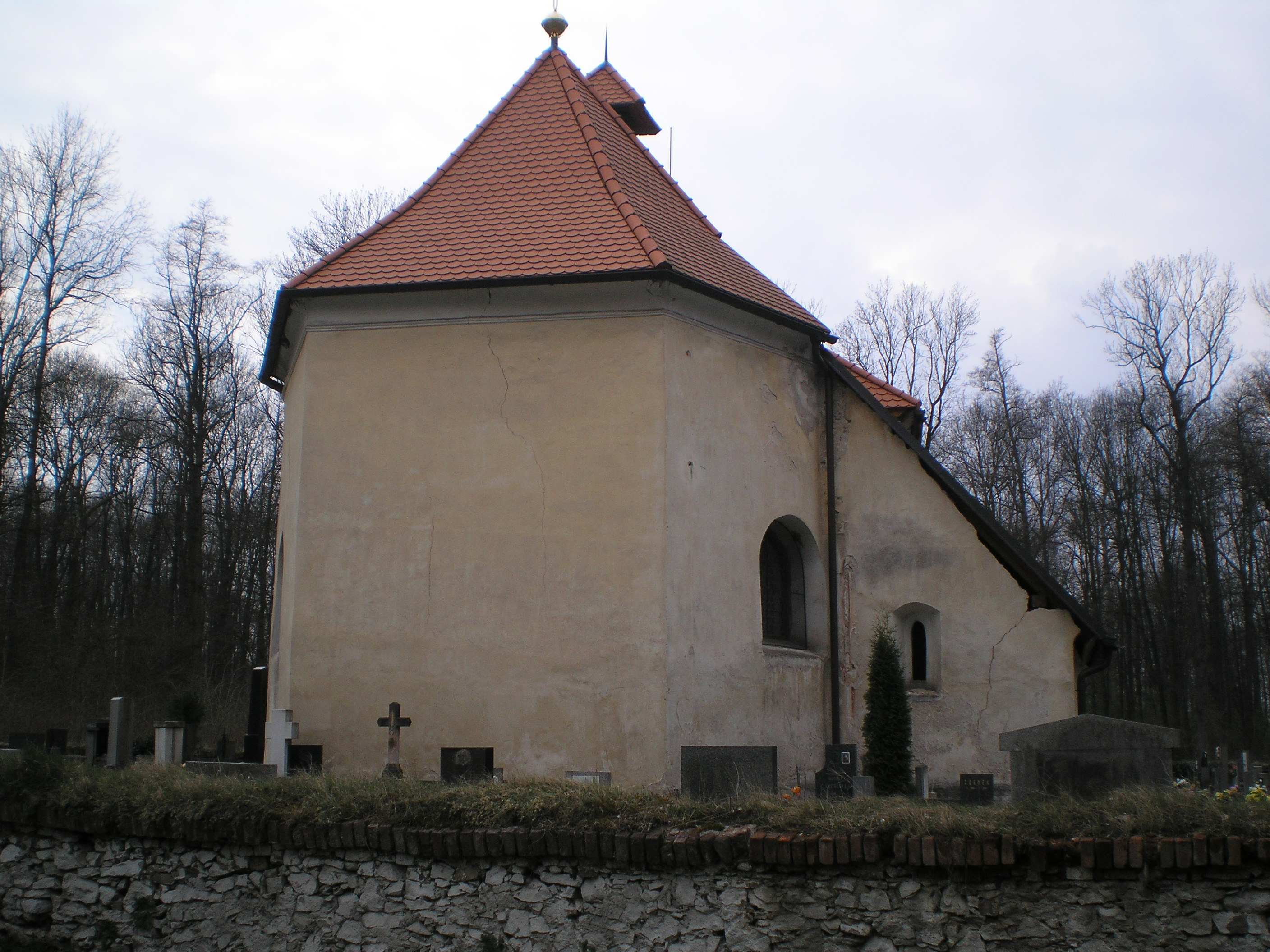 Church of Saint Michael Archangel in Valy-Lepějovice from east